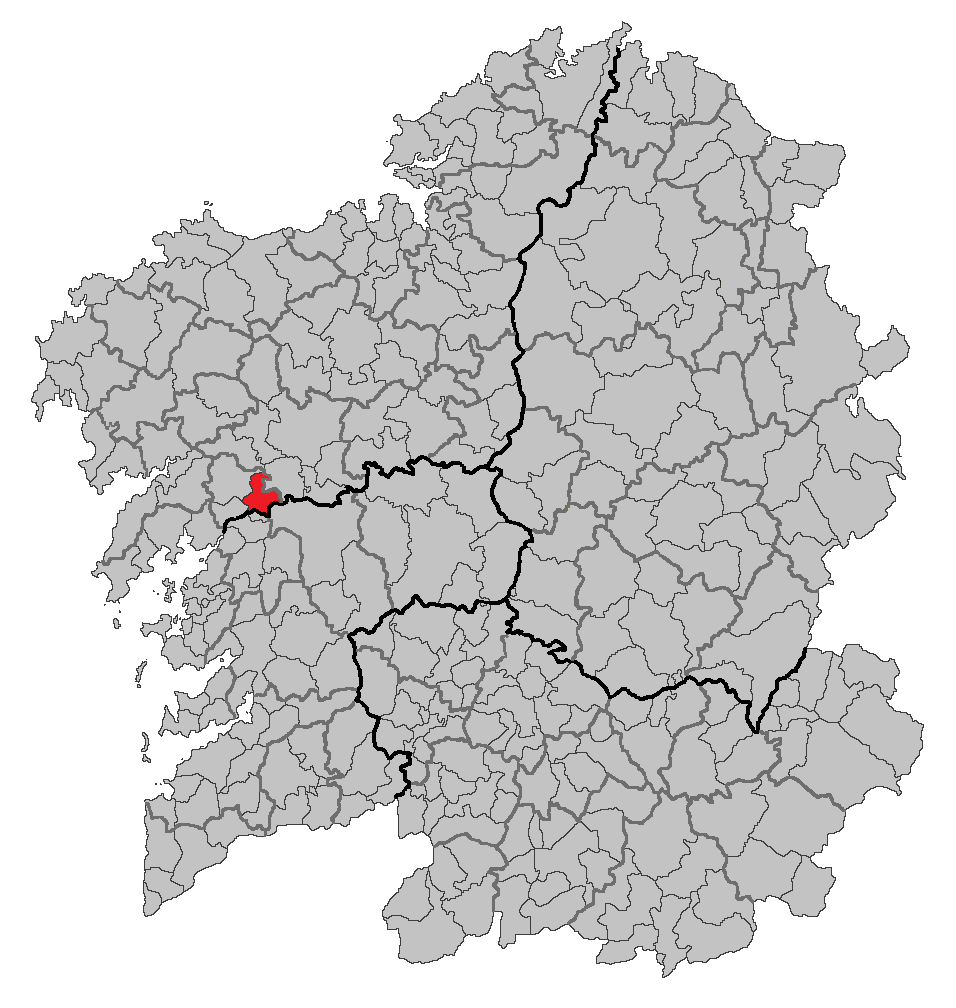 Location map of Padrón, A Coruña, Galicia